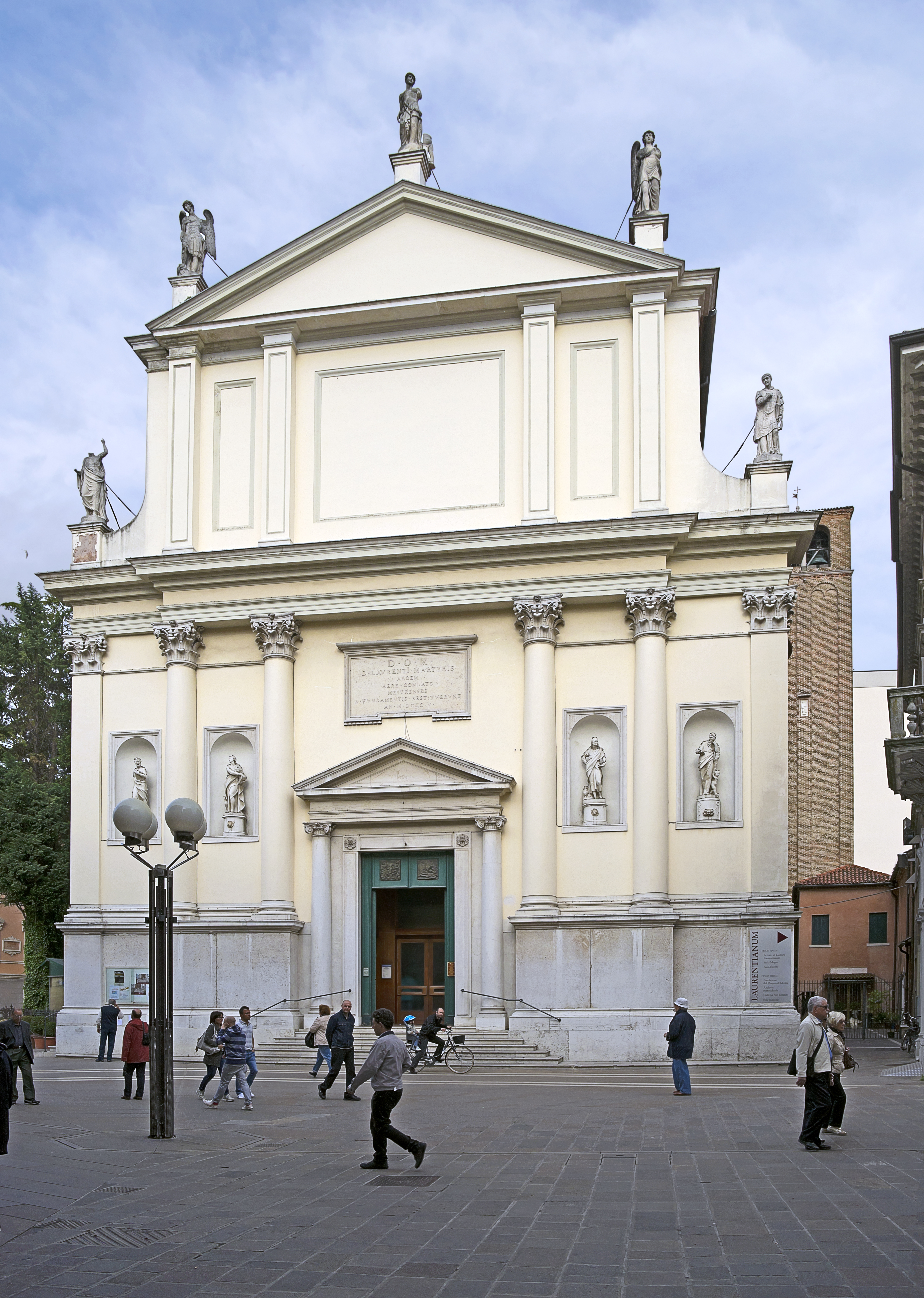 San Lorenzo - Cathedral of Mestre - Facade by Bernardino Maccaruzzi